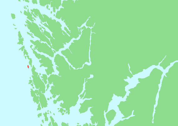 Locator map of Turøy, Hordaland, Norway